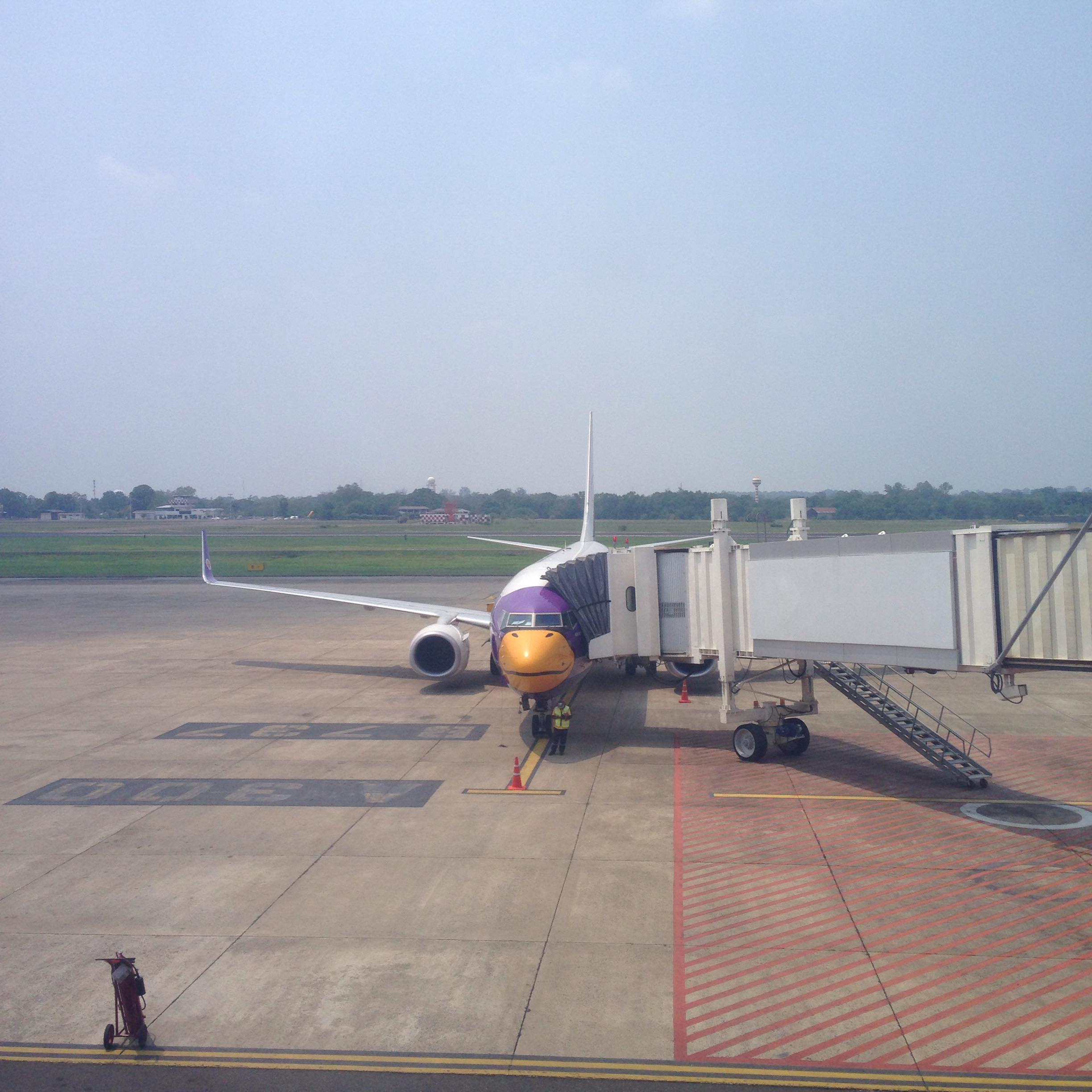 Nok Air at Ubon Ratchathani Airport / B737 - 800